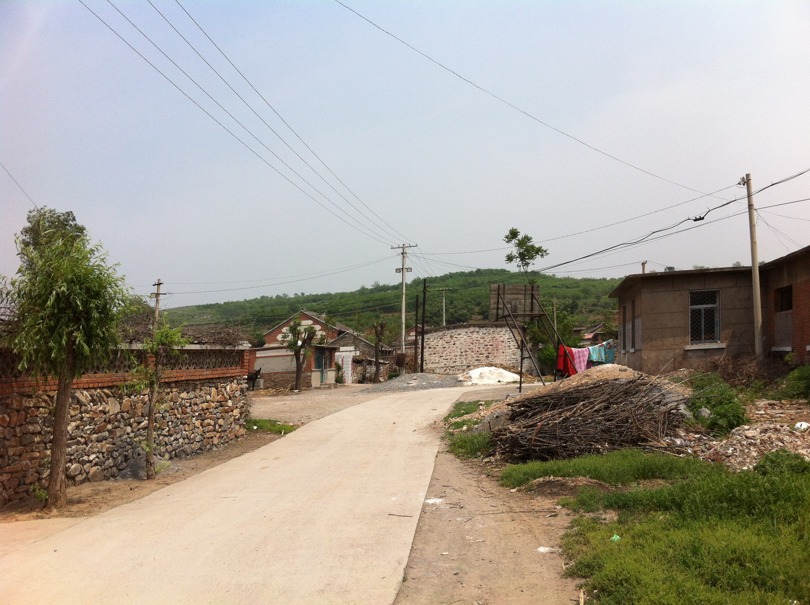 The village of Dongbuluo in Qinhuangdao.